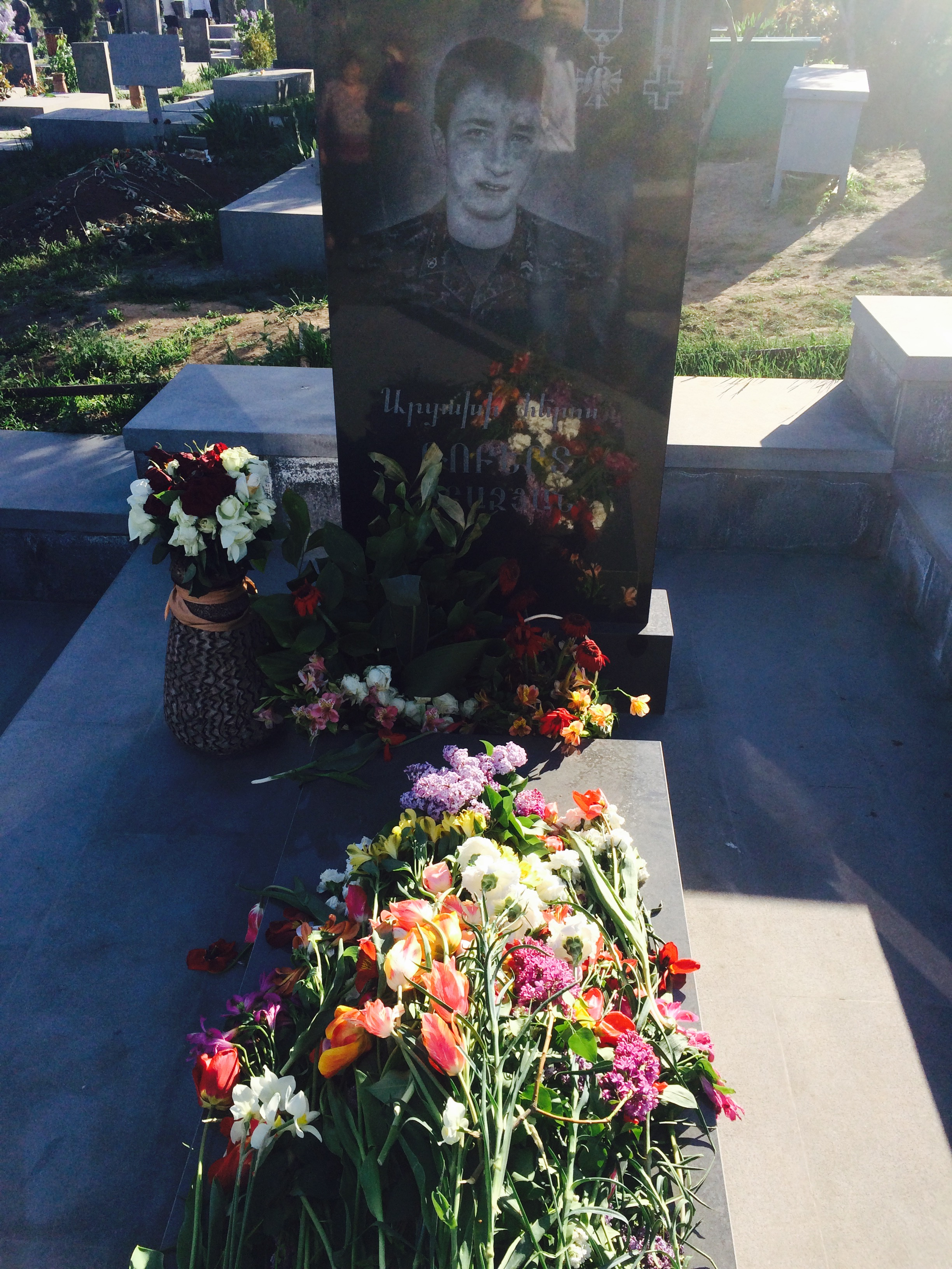 Robert Abajyan's grave in Yerablur